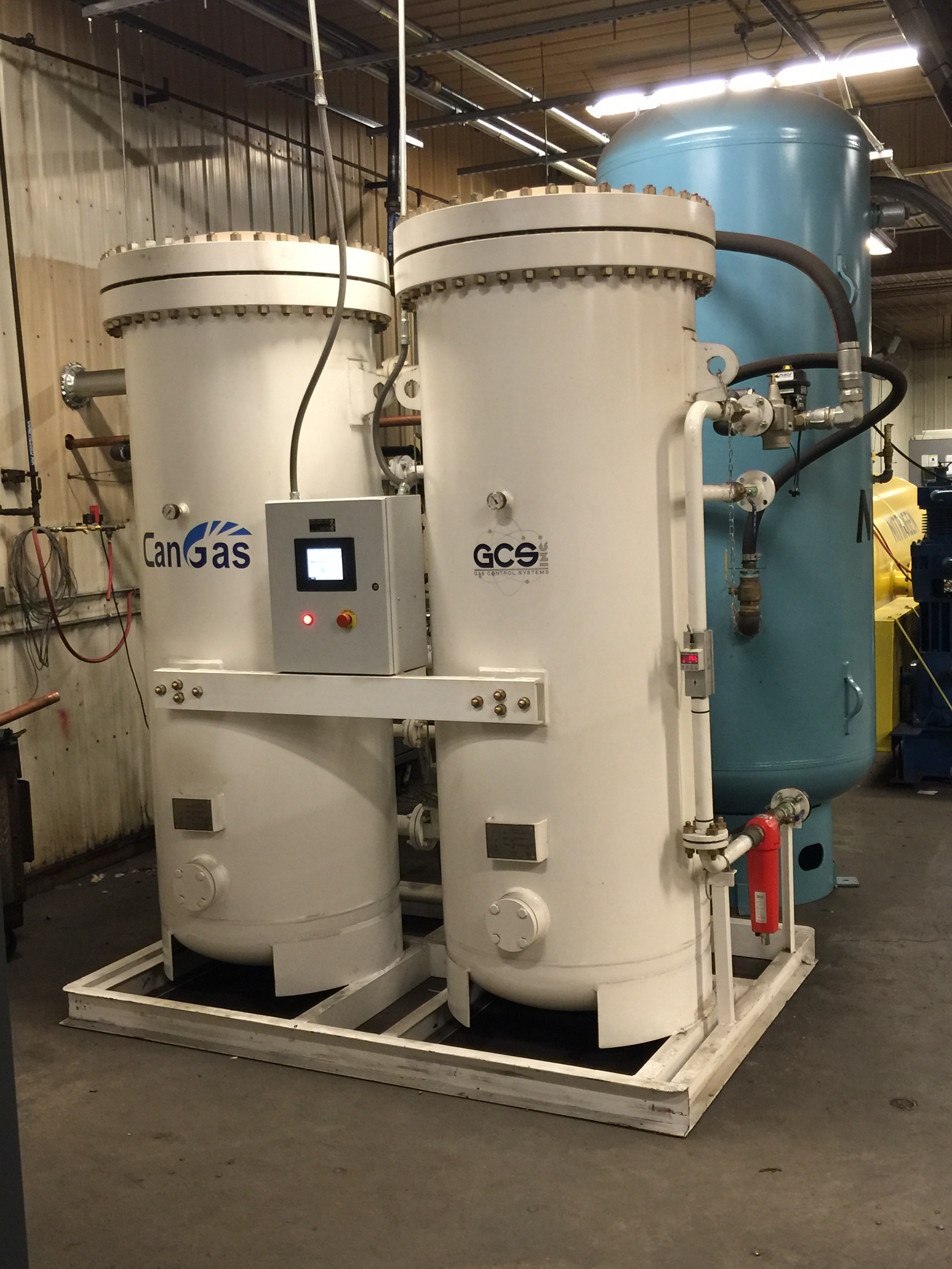 Nitrogen Generator for fiber laser.